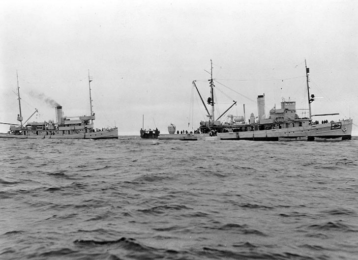 United States Navy fleet tug USS Wandank (AT-26) (eft) and submarine rescue vessel USS Falcon (ASR-2) (right) ca. 24 May 1939, with the McCann Rescue Chamber between them, during operations to rescue the crew of sunken submarine USS Squalus (SS-192)